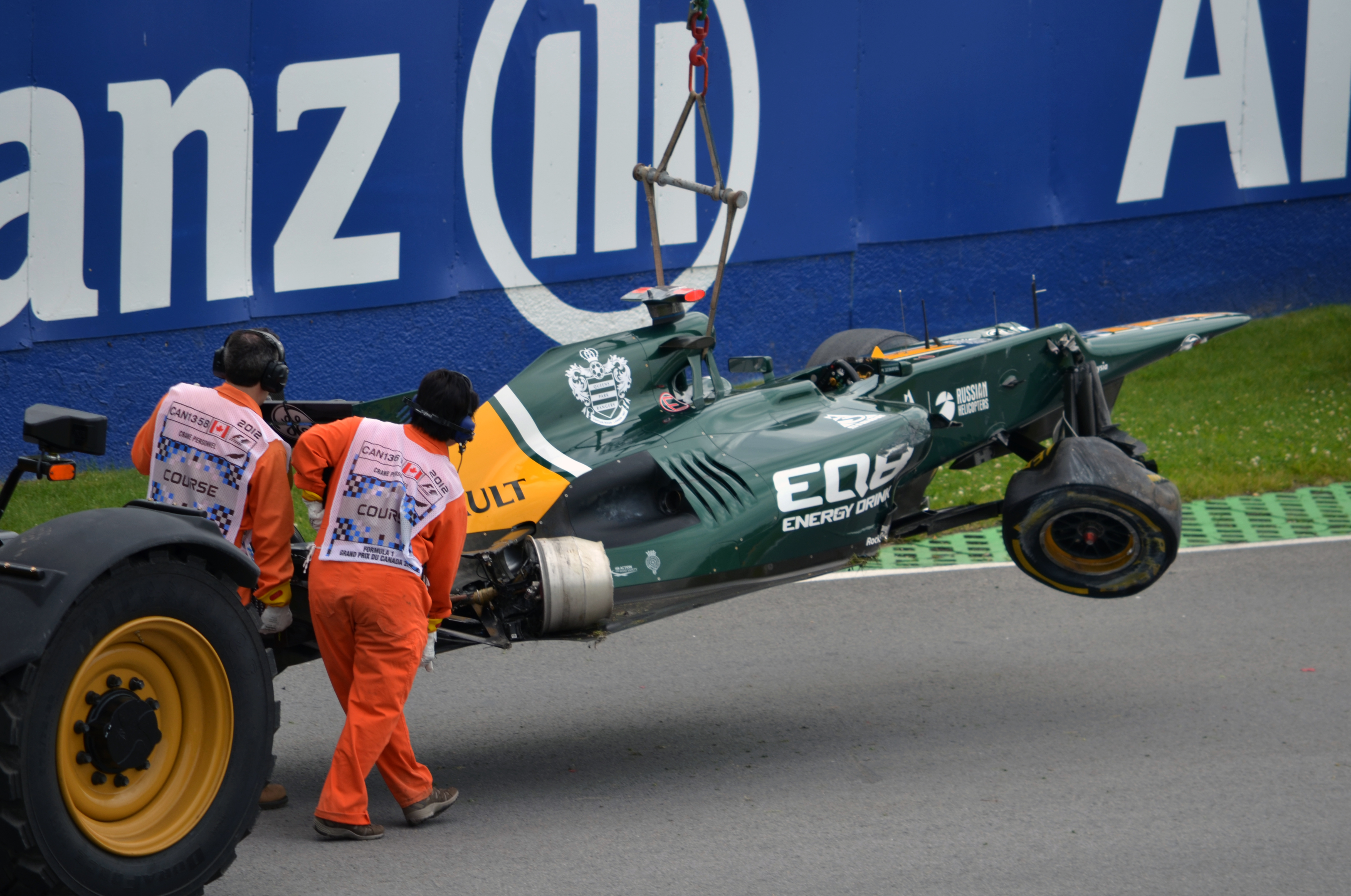 Marshals manoeuvre the wrecked Caterham - Renault CT01 of Heikki Kovalainen following his crash at Circuit Gilles Villenueve during first practice for the 2012 Canadian Grand Prix.